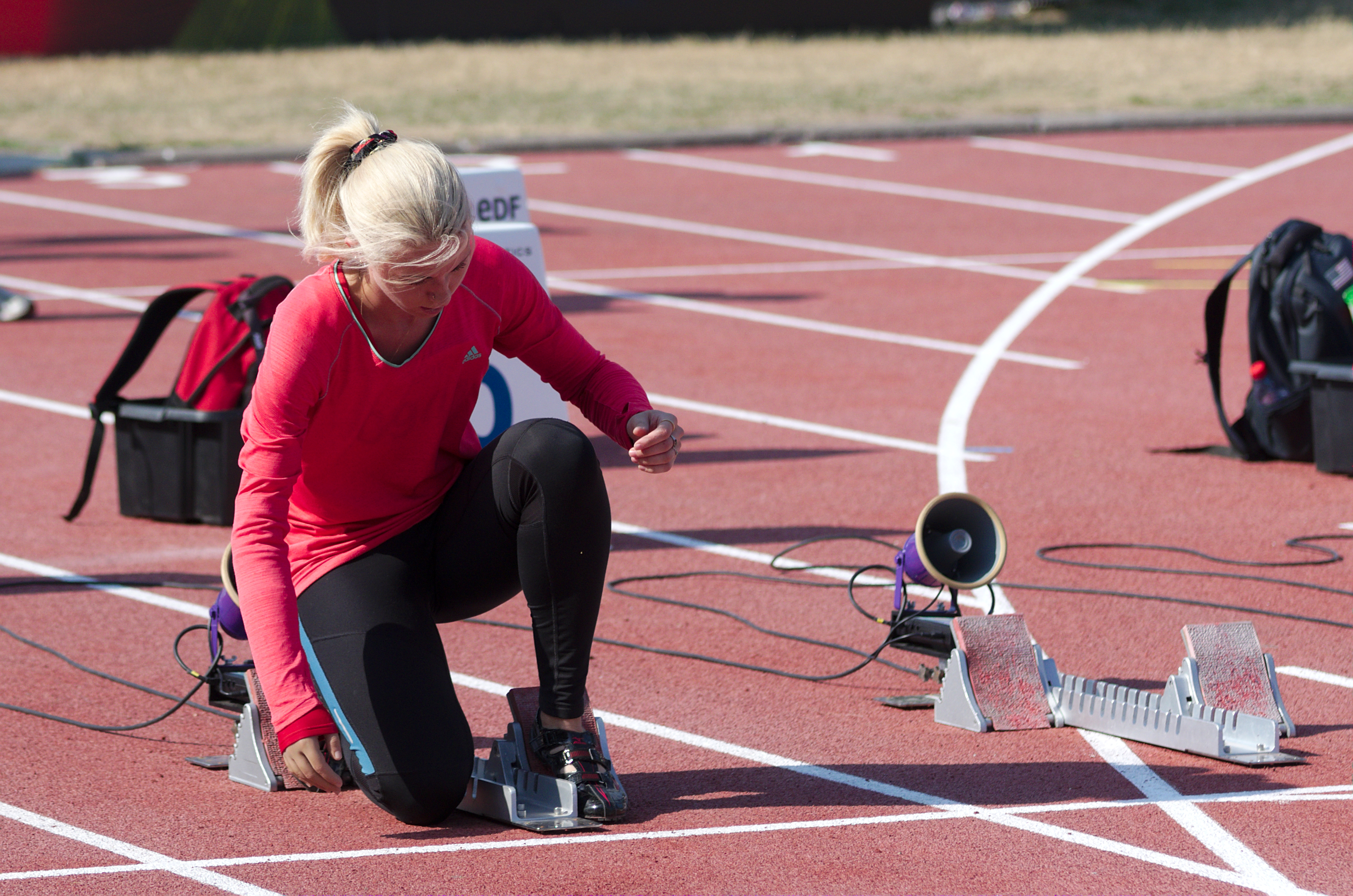 Nikol Rodomakina of Russai preparing for the Women's 100m - T46 first semifinal